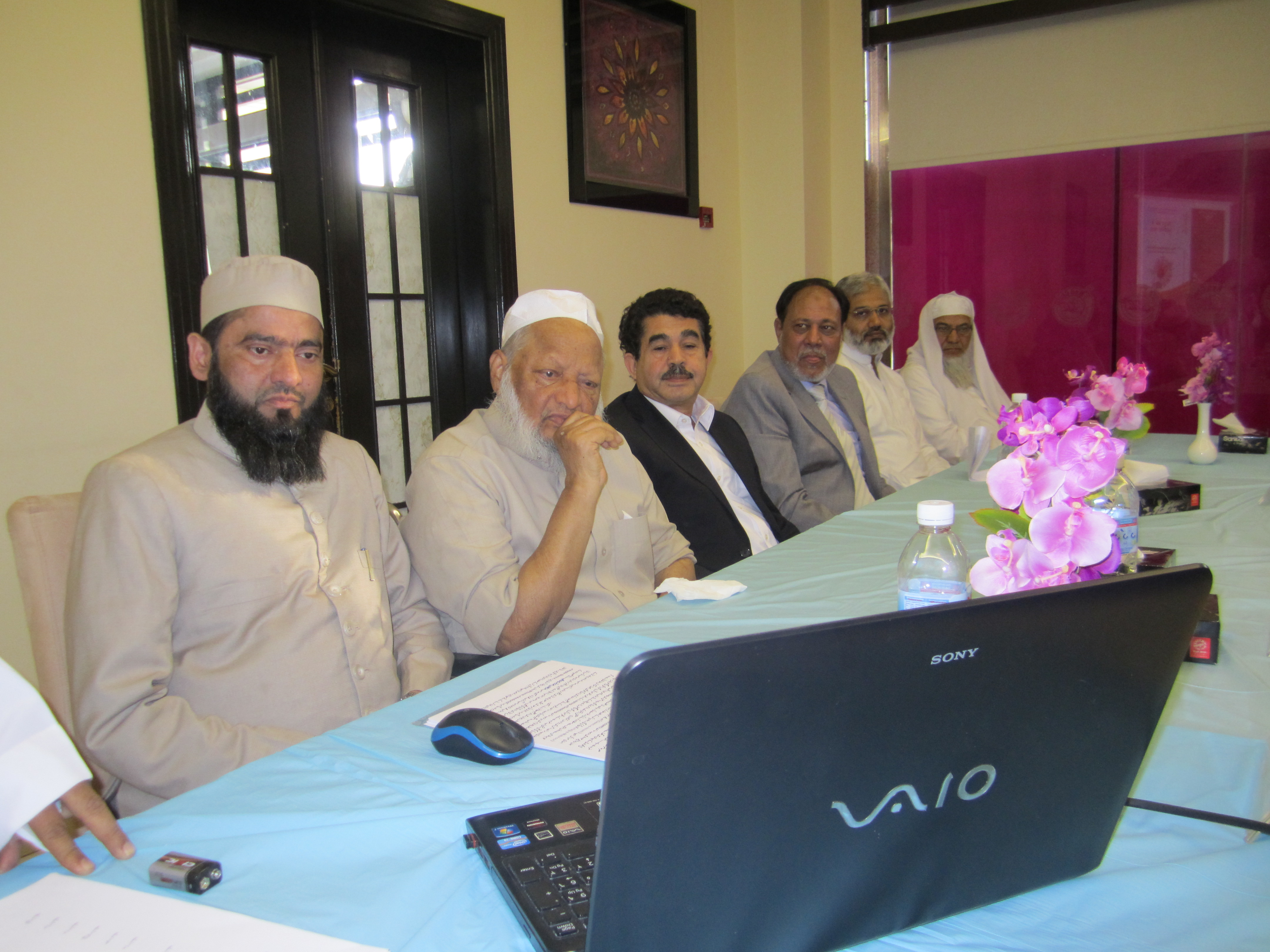 Renowned Muhaddis Dr. Mohammad Mustufa Azmi is launching the 39 Electronic Books of Dr. Mohammad Najeeb Qasmi on 19 March 2016